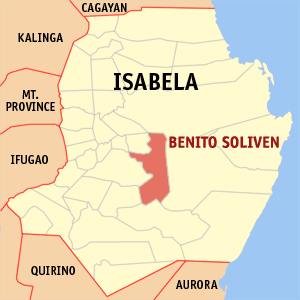 Map of Isabela showing the location of Benito Soliven